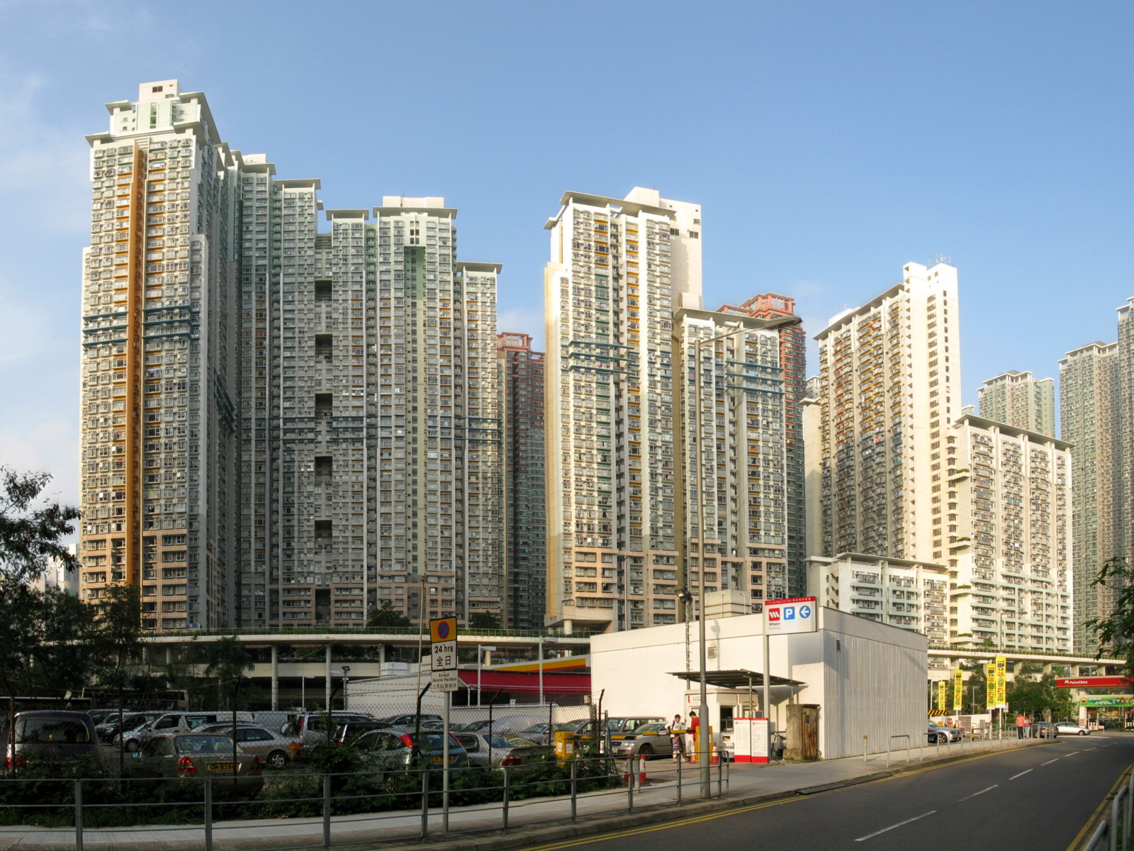 Verbena Heights, Tseung Kwan O (Image is created by stitching 6 photos together)